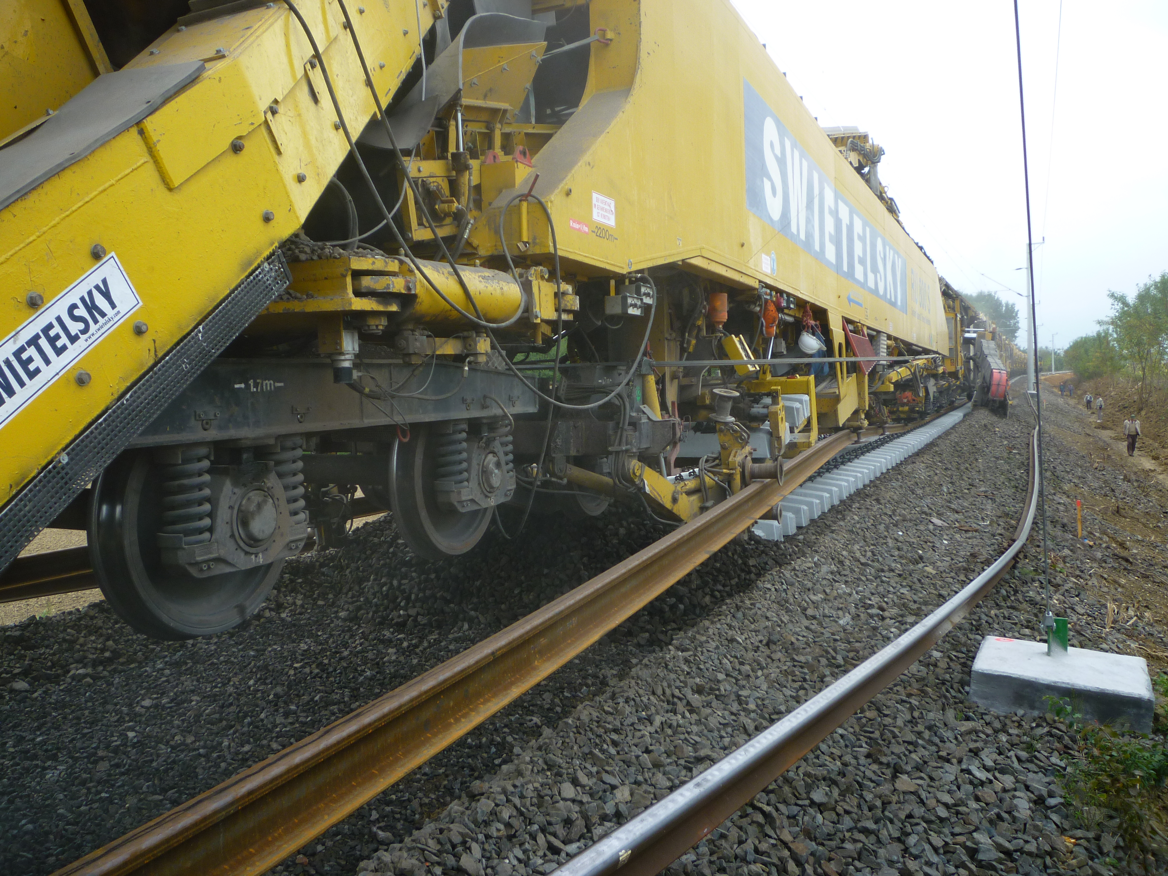 Plasser & Theurer type RU 800 S renewal machine on the Szombathely–Szentgotthárd railway line, Hungary.